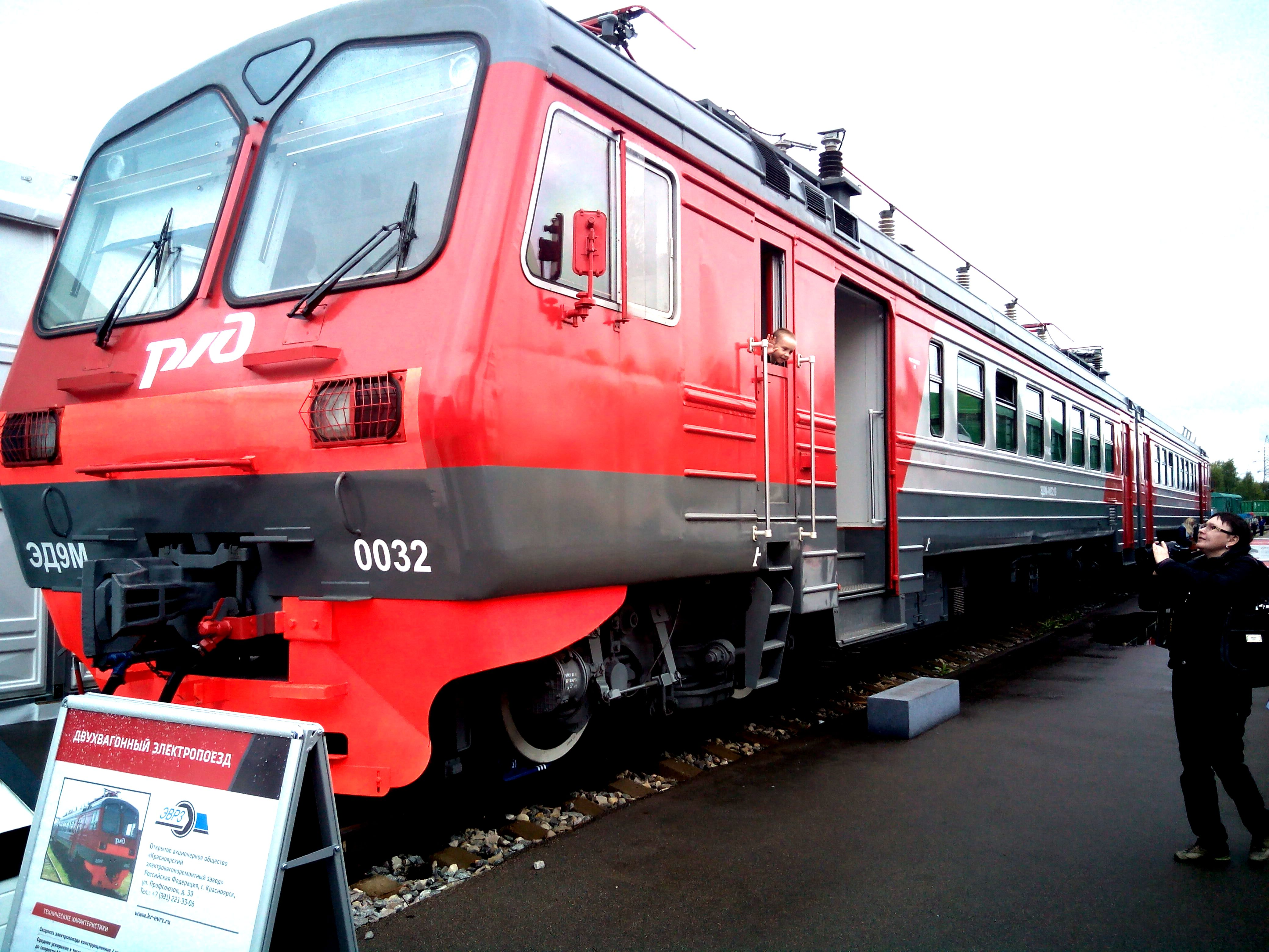 Two-cars EMU class ED9M-0032 at EXPO-1520